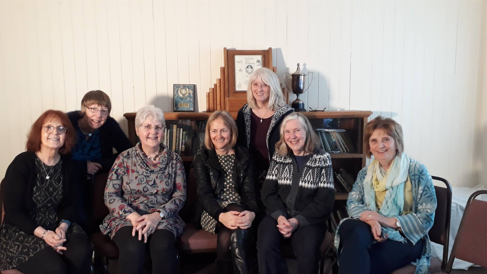 Enfys Llwyd, Helen Greenwood, Angharad Tomos, Sioned Elin, Ann Rhys, Meinir Ffransis, Marged Tomos (left to right)